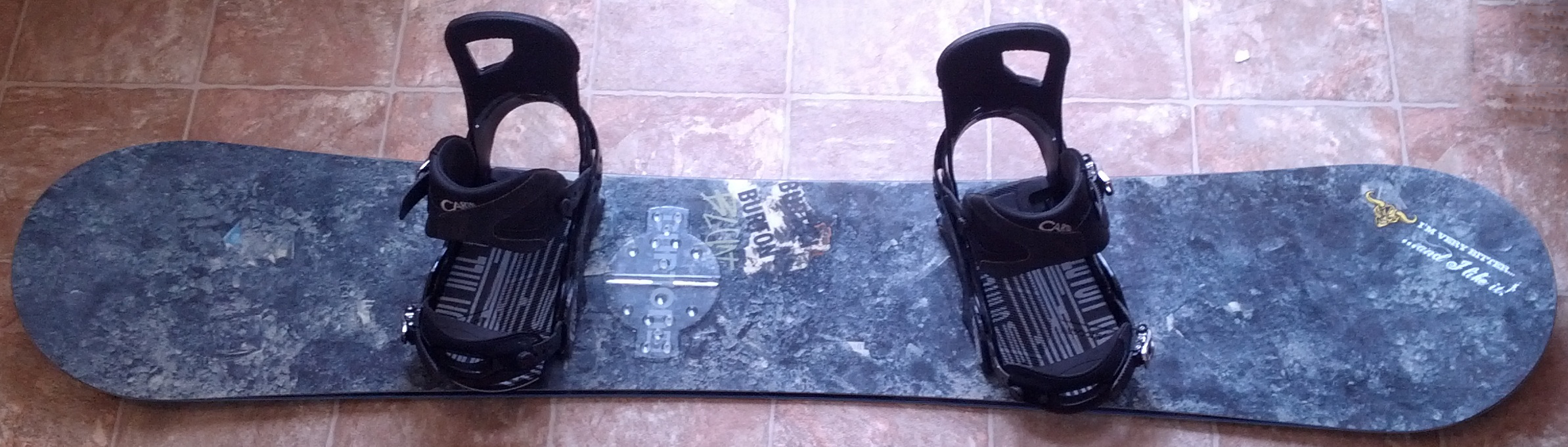 Burton Blunt Snowboard (162w) with Burton Cartel Bindings (Large, in DuckStance +18 -9) and Burton Stomp Pad with Ice Scraper For the snowboard page.